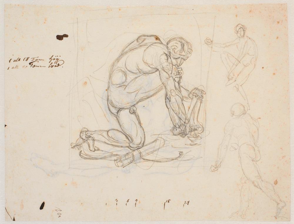 Nicolai Abildgaard (1743–1809) DescriptionDanish painter, designer, architect, sculptor and university teacherDate of birth/death 11 September 1743 4 June 1809Location of birth/death Copenhagen CopenhagenWork periodRomanticismera QS:P2348,Q37068Work location Copenhagen (1764); Rome (1772–1777)Authority control : Q319854 VIAF: 10020076 ISNI: 0000 0001 1037 9358 ULAN: 500023457 LCCN: n80049733 WGA: ABILDGAARD, Nicolai WorldCat creator QS:P170,Q319854